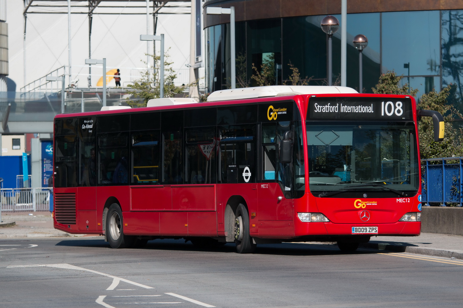 London Central Mercedes-Benz Citaro on London Buses route 108 in 2017